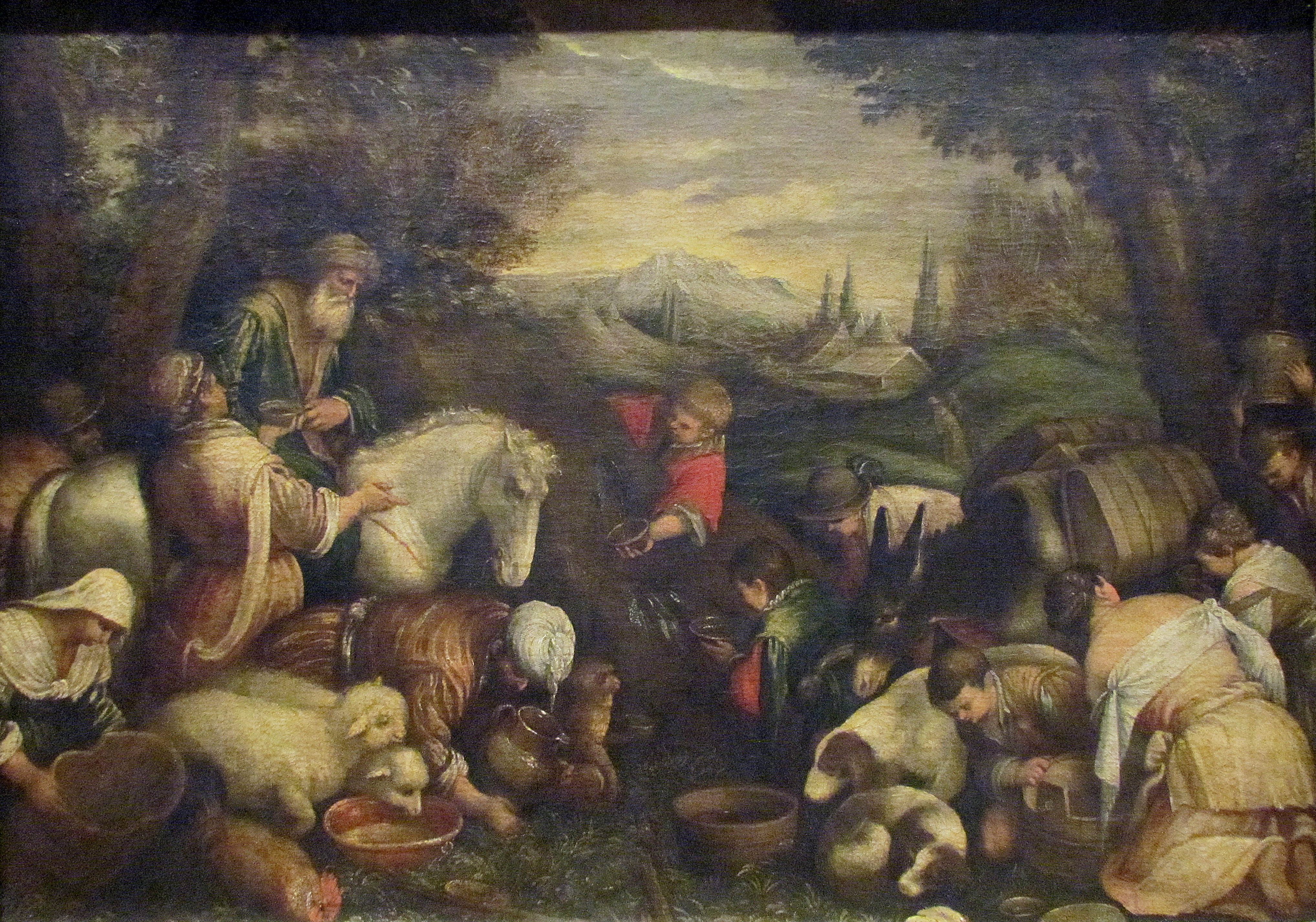 Leandro Bassano, Moses striking the rock, National Museum of Serbia